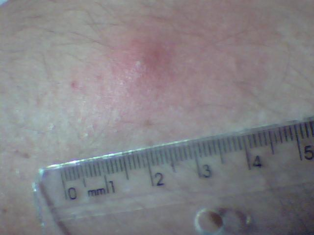 Montenegro's reaction: reactive test for leishmaniasis. Image obtained after 72 hours of injection. The red area was found to be much more intense after 48 hours of application. The eruption was manifested in an intense way after this last term.